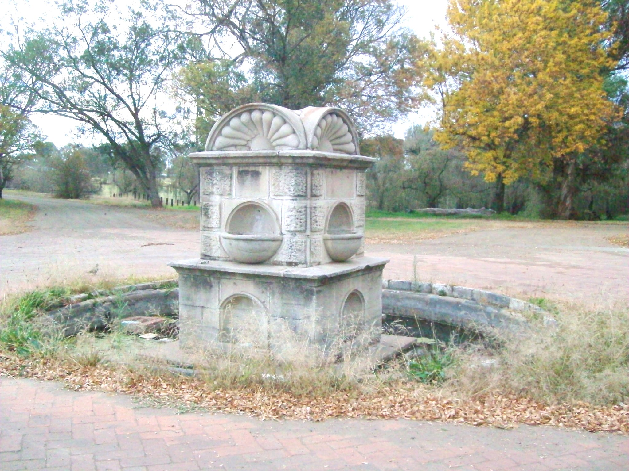 Standerton, Mpumalanga.